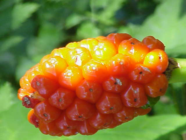 Name: Arum maculatum, Family: Araceae, Image no. 2